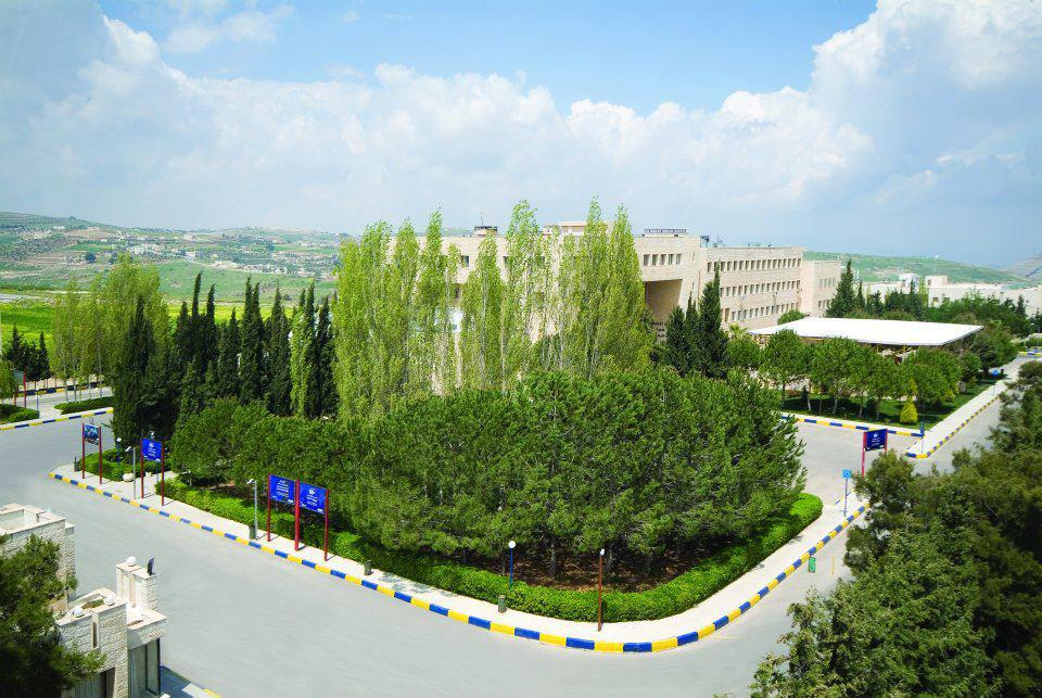 Al Ahliyya Amman University Gate